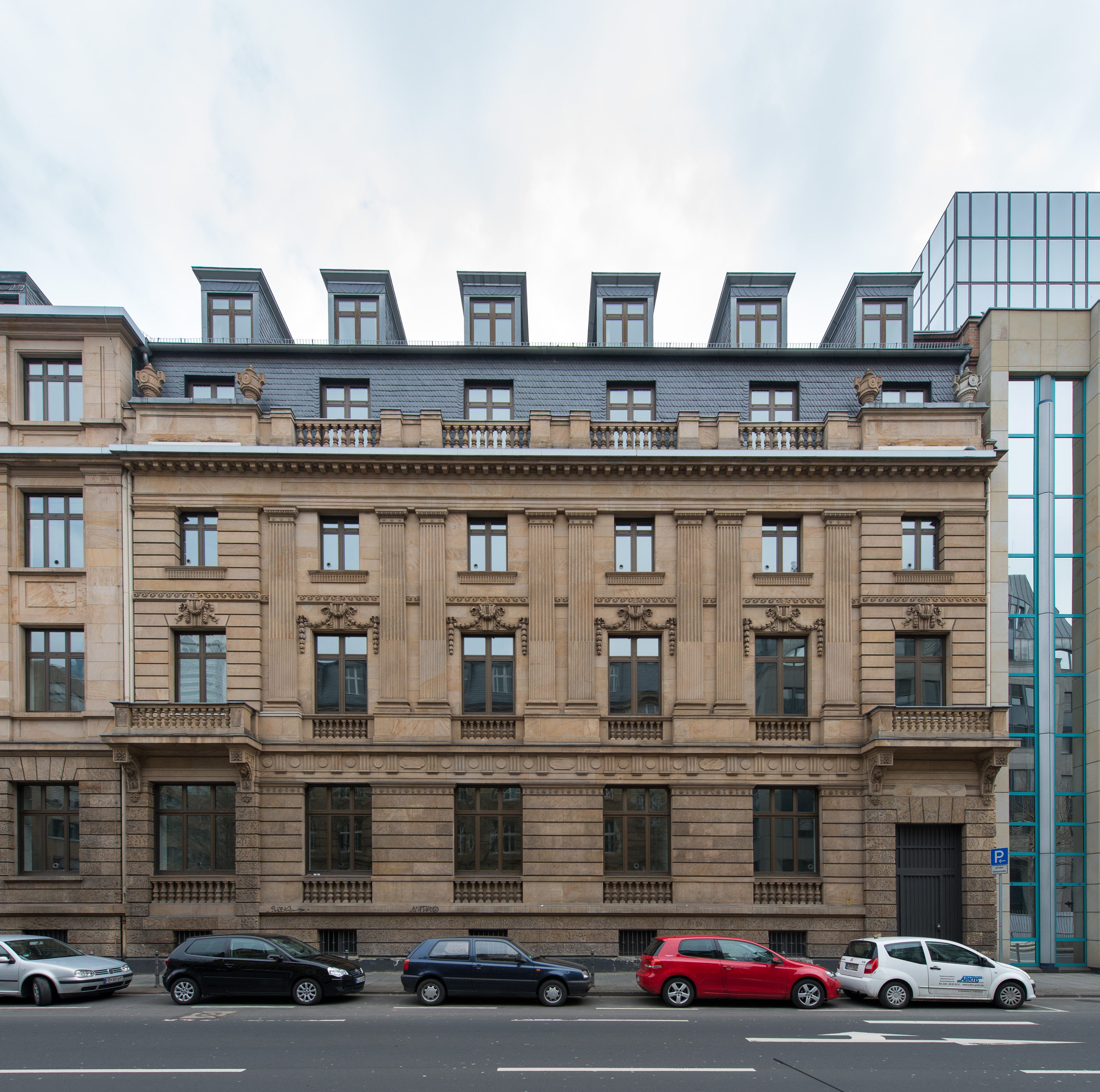 Frankfurt am Main, Gutleutstraße 31 (West). Cultural monument of the city